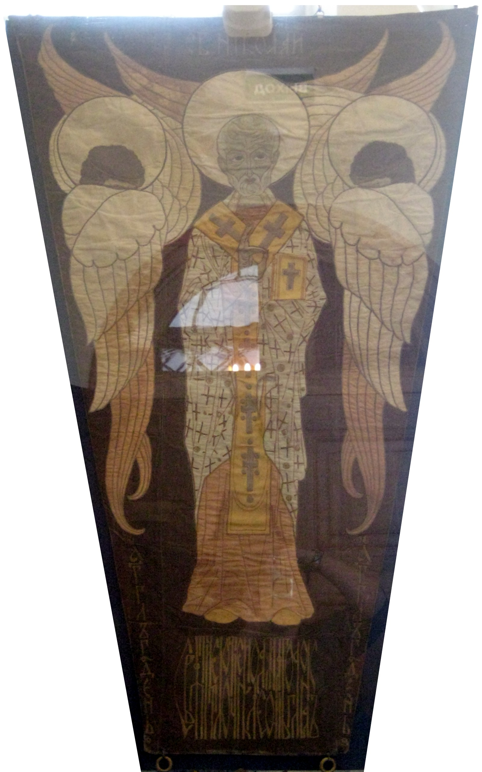 Khorugv saint Nicholas with archangels, Russia, early 20 c